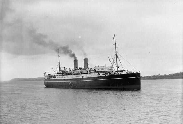 Royal Mail Ship METAGAMA of Candadian Pacific Steam Ship Lines near Québec